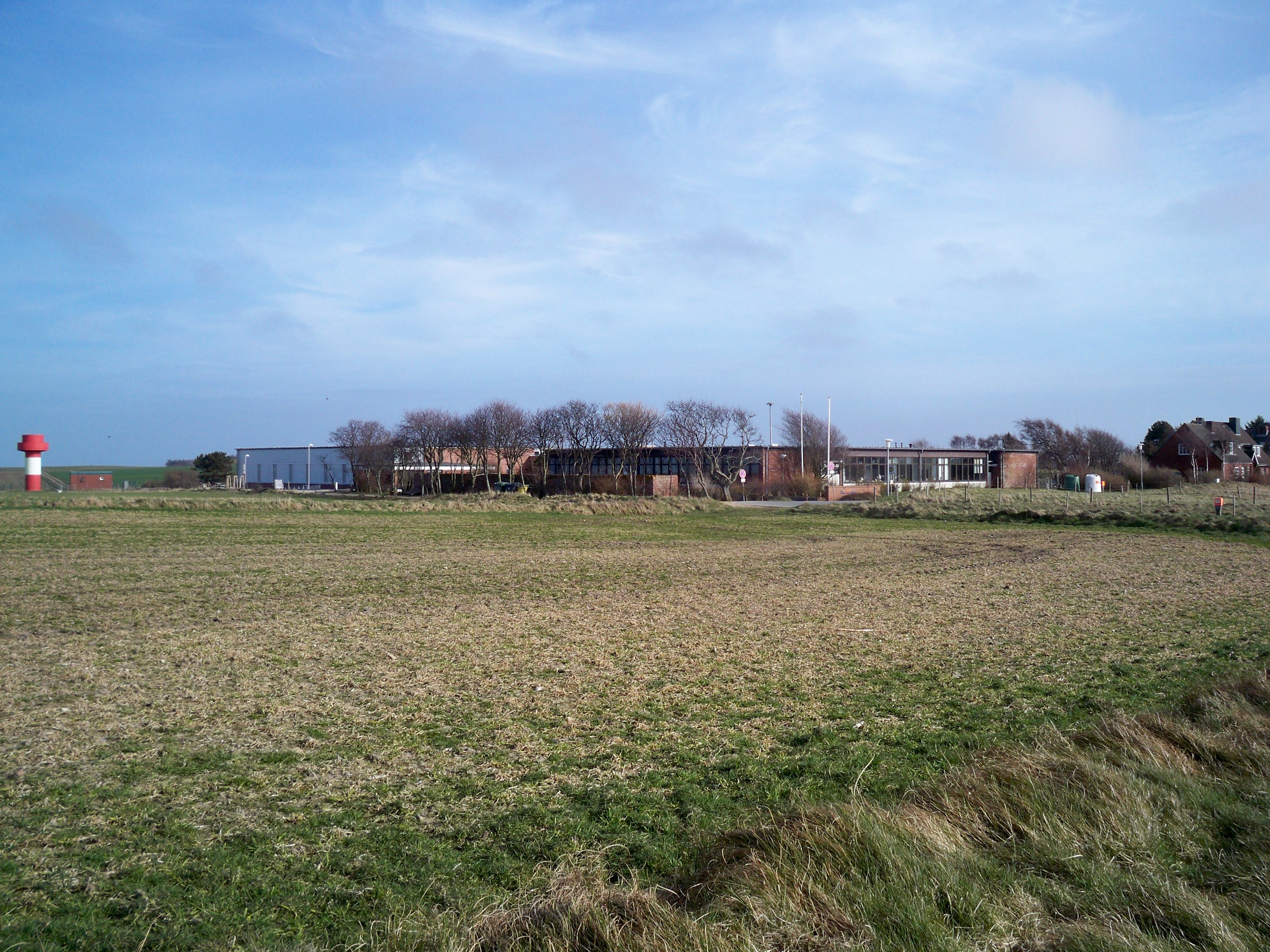 Süddorf, Nebel, Schleswig-Holstein, island school "Öömrang Skuul" with Nebel lighthouse (to the left)